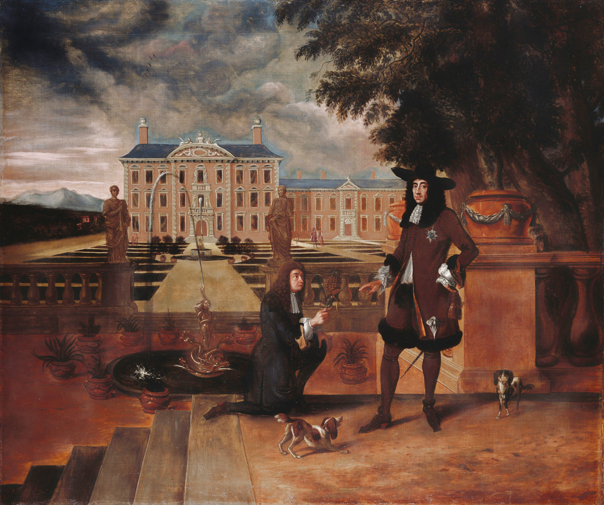 Charles II of England being given the first pineapple grown in England by his royal gardener, John Rose.